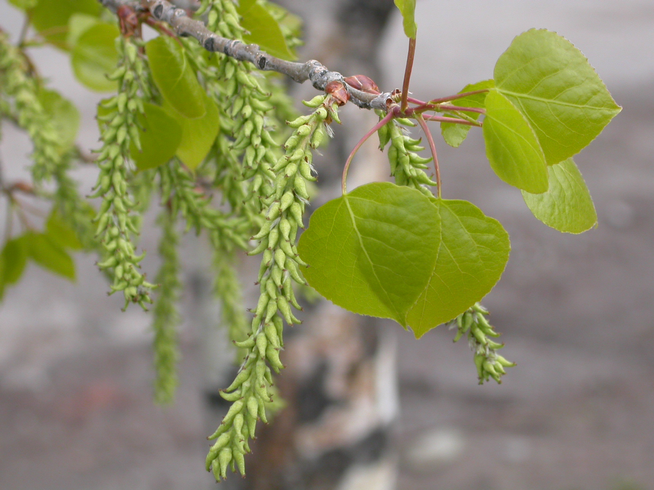 Remnant hairy bracts subtend some pistillate flowers.